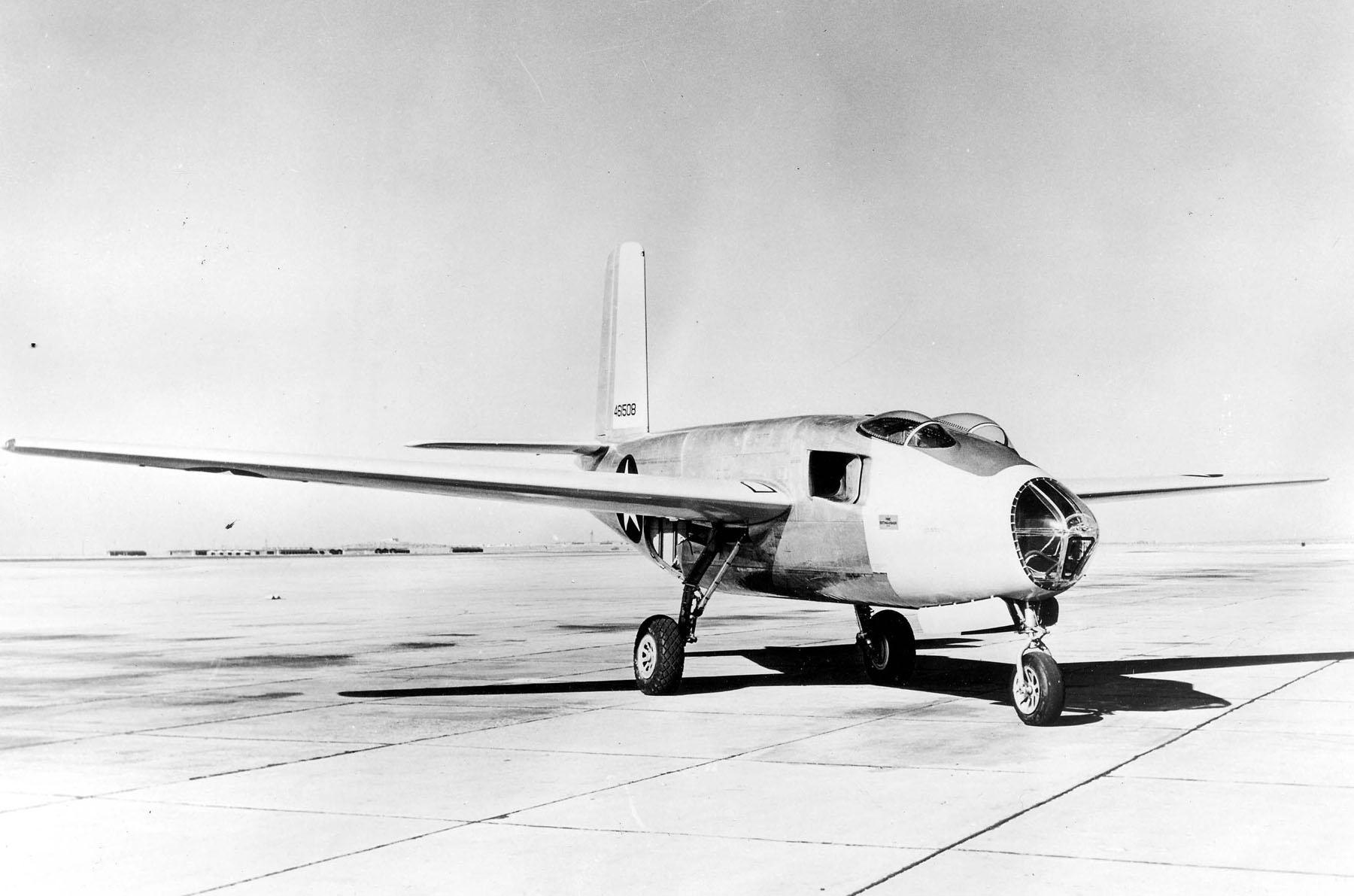 Douglas XB-43 parked